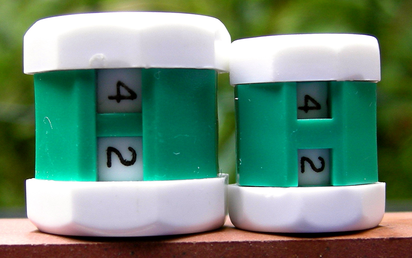 Pony and Whitecroft knitting row counters manufactured 2000-2010.